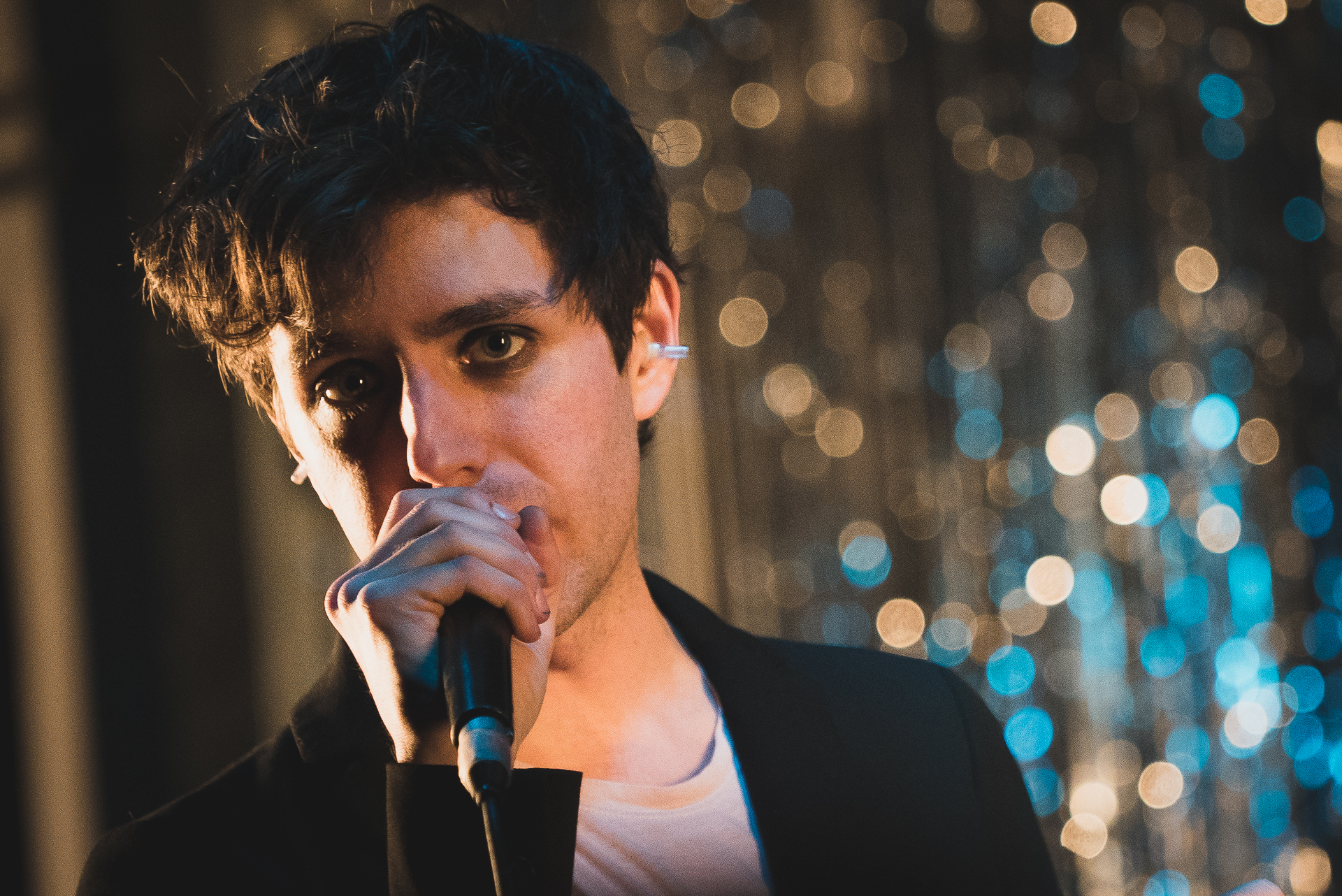 Ezra Furman at Rough Trade